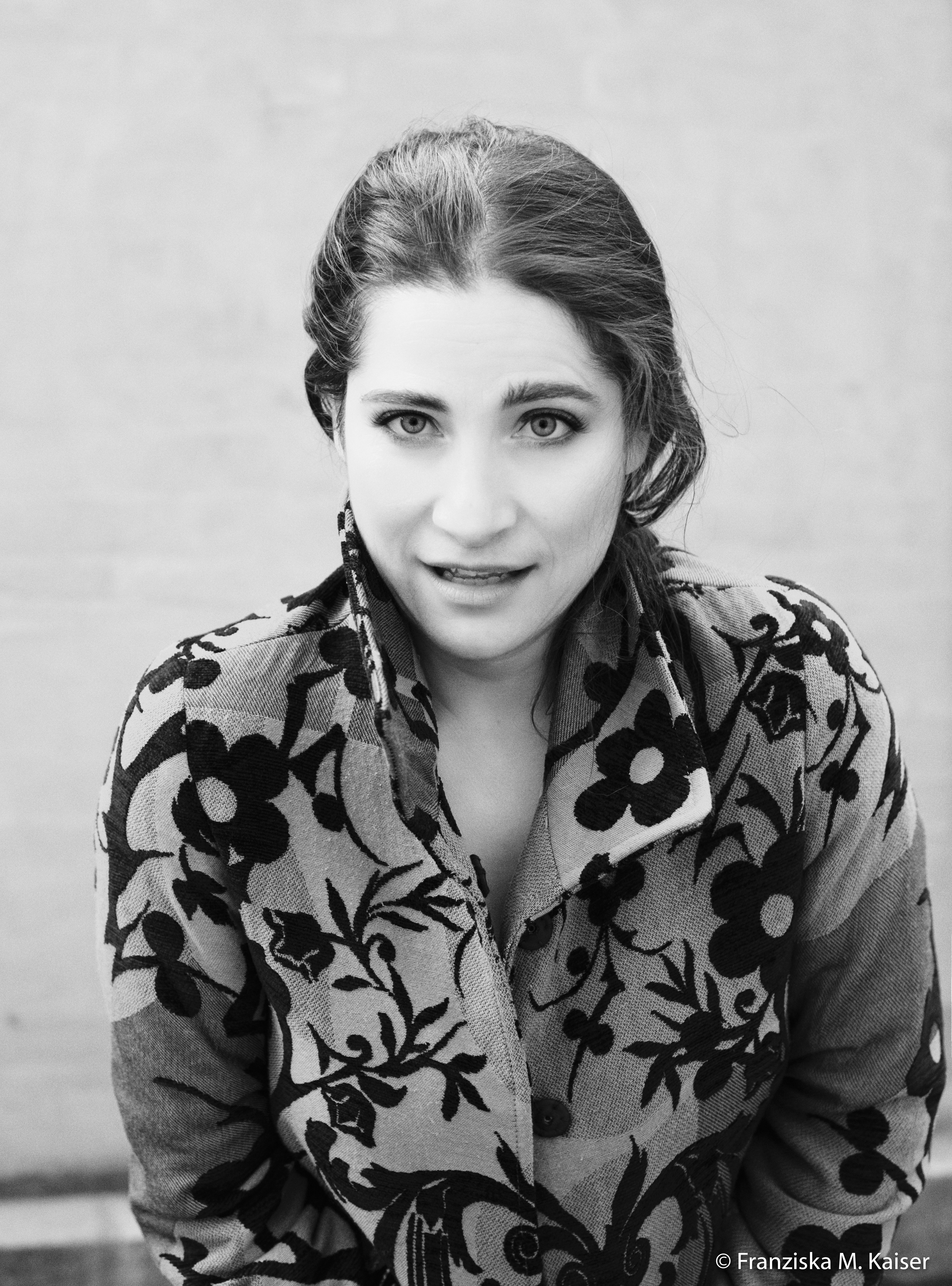 Portrait of Nora Sourouzian, Mezzosoprano